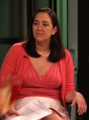 Erin Gruwell; San Diego